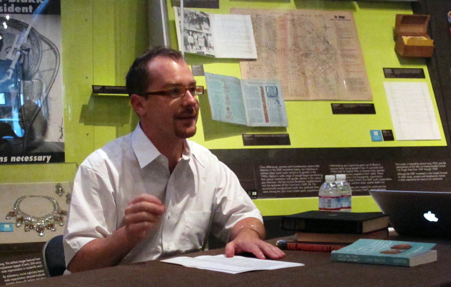 Jesse Bering spoke at The GLBT History Museum in San Francisco on the evening of July 17, 2012. His topic: "Sexual Reorientation Attempts Through the Lens of History."